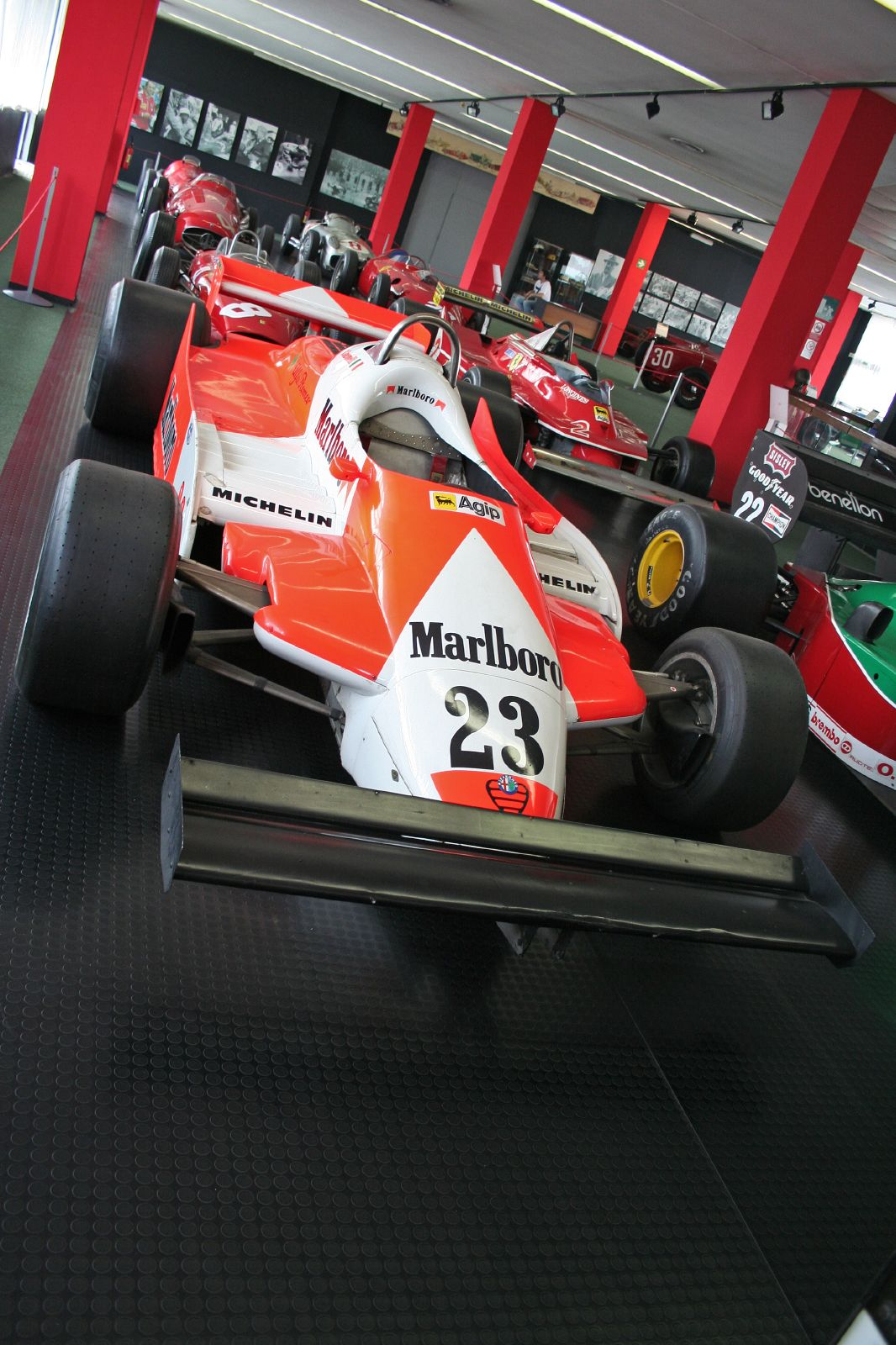 ALFA ROMEO mod. 179 B MUSEO DELL'AUTOMOBILE Turin